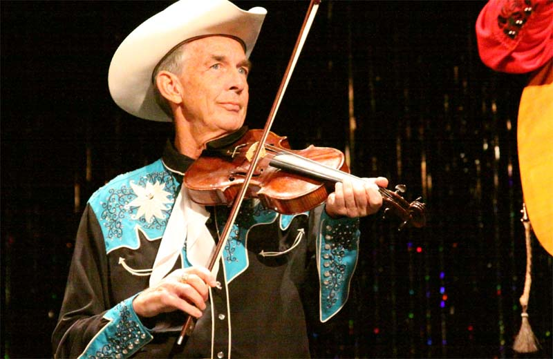 Woody Paul (Paul Woodrow Chrisman) performs at the Poncan Theater in Ponca City, Oklahoma on November 7, 2008. Any use of this photo must include a photo attribution to Hugh Pickens and a link to Hugh Pickens.